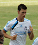 Liverpool FC during pre-season training